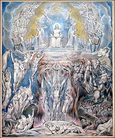 One of William Blake's watercolour illustrations for Robert Blair's poem The Grave.